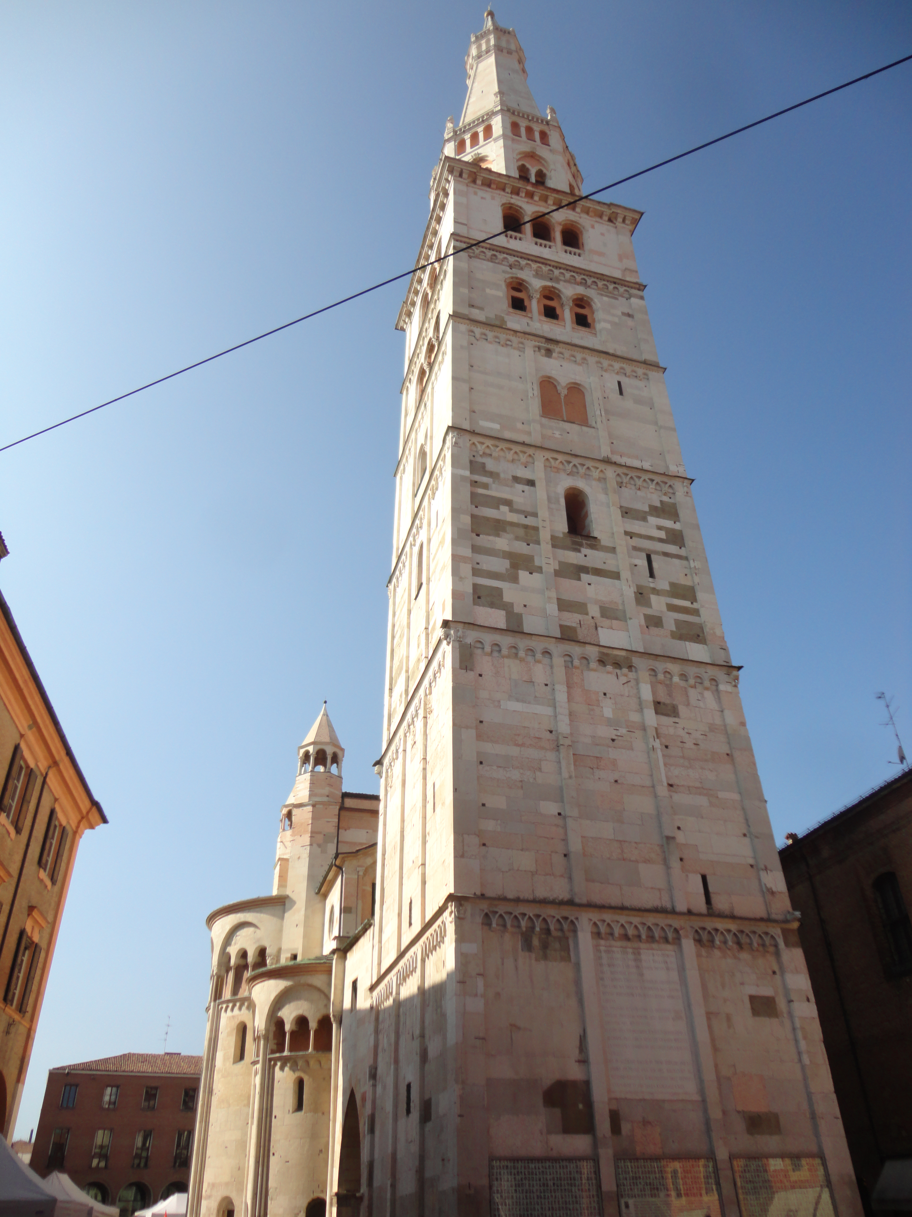 Grande Square in Modena